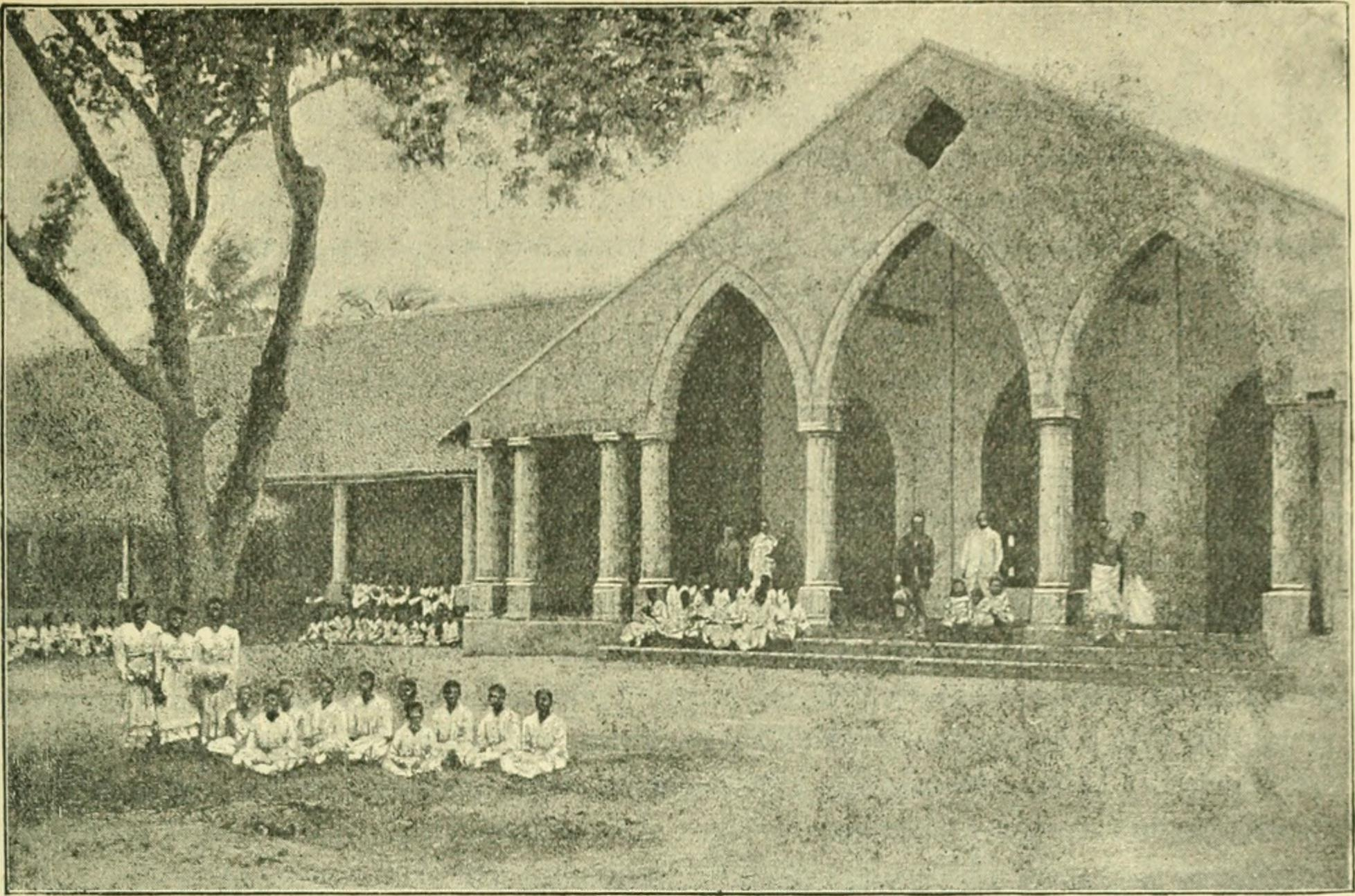 Identifier: sevenyearsinceyl00leit Title: Seven years in Ceylon: stories of mission life Year: 1890 (1890s) Authors: Leitch, Mary Leitch, Margaret W Subjects: Missions -- Sri Lanka Sri Lanka -- Description and travel Publisher: New York : American Tract Society View Book Page: Book Viewer About This Book: Catalog Entry View All Images: All Images From Book Click here to view book online to see this illustration in context in a browseable online version of this book. Text Appearing Before Image: e missionaries and many educated and influential nativeswere present, to the number of 800. The marriage was celebrated in the Manepychurch. I was glad that so many should have the opportunity of seeing a Christianmarriage, and hearing the words of the native pastor and our missionaries. It wasnearly dusk when they left the church, Christian lyrics in Tamil composed for theoccasion, and sung with accompaniment of native instruments, having very pleasantlyfilled up the time. As the bridal party left the church, garments were spread before them the wholeway to their home, an arch of flowers was borne over their heads, a band of musicpreceded them, and the whole company of people accompanied them on foot in thebrilliant glare of torches, blue and red lights, rockets and fireworks, provided by friendsto grace the occasion. We hope that they may have a very happy and useful life, and carry out their intentionof devoting themselves directly to Christian work in connection with this mission. Text Appearing After Image: THE OODOOVILLE GIRLS IIOAKDINC.-SC HCjOL. CHAPTER XIX. Uduvil Girls' Boarding School.